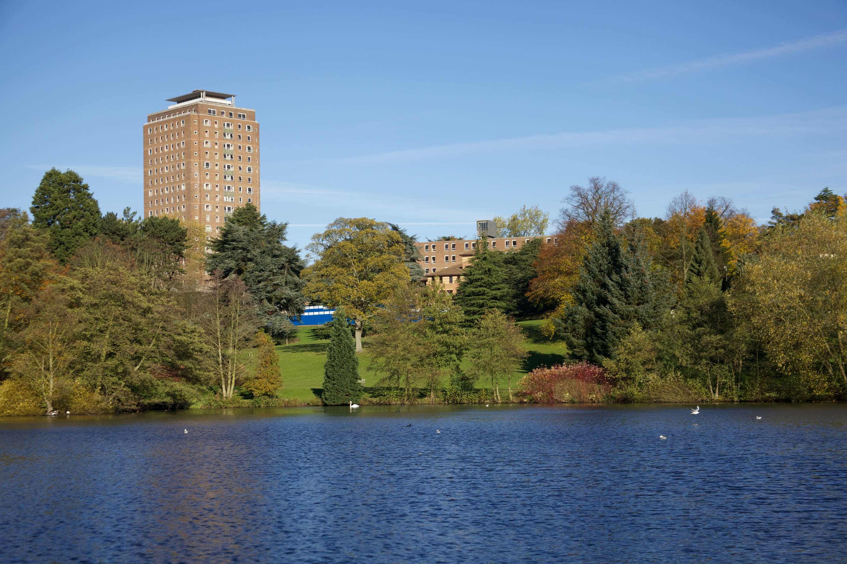 Chamberlain Hall as it appeared just prior to demolition in 2013.